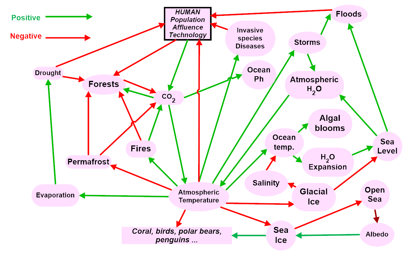 Positive and negative feedback loops suggested by various topics discussed in Al Gore's book. The core links are positive CO2 production by human development and negative effects upon humans by the sum total of all other loops.